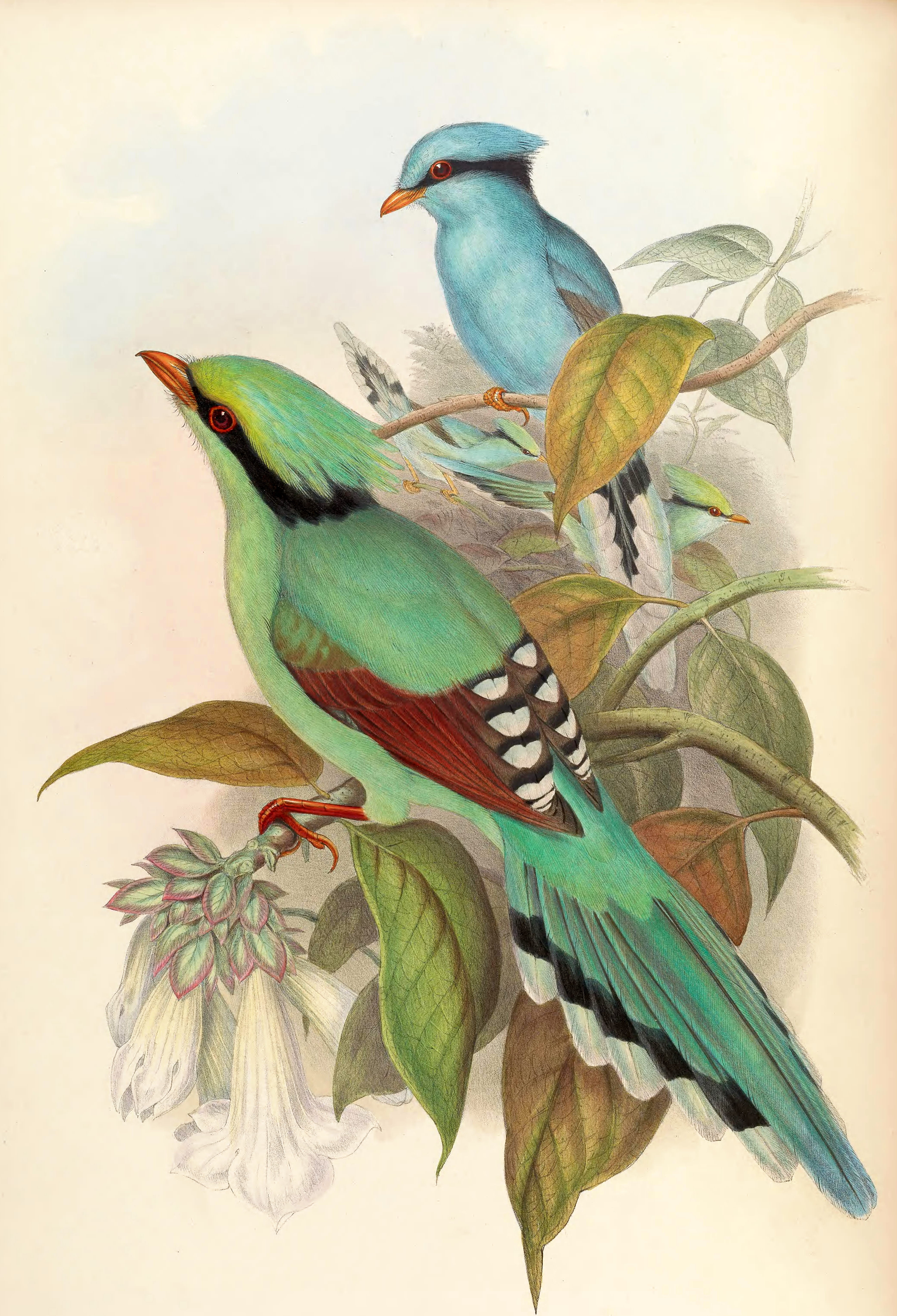 Common Green Magpie Cissa chinensis (Boddaert)